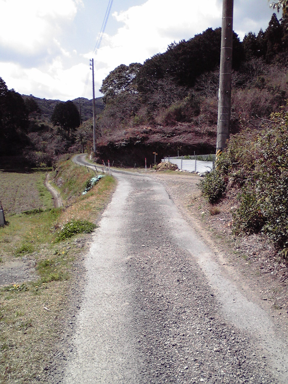 This is a landscape of Mie Prefectural route 730 Hiyamaji-Nambari Line.